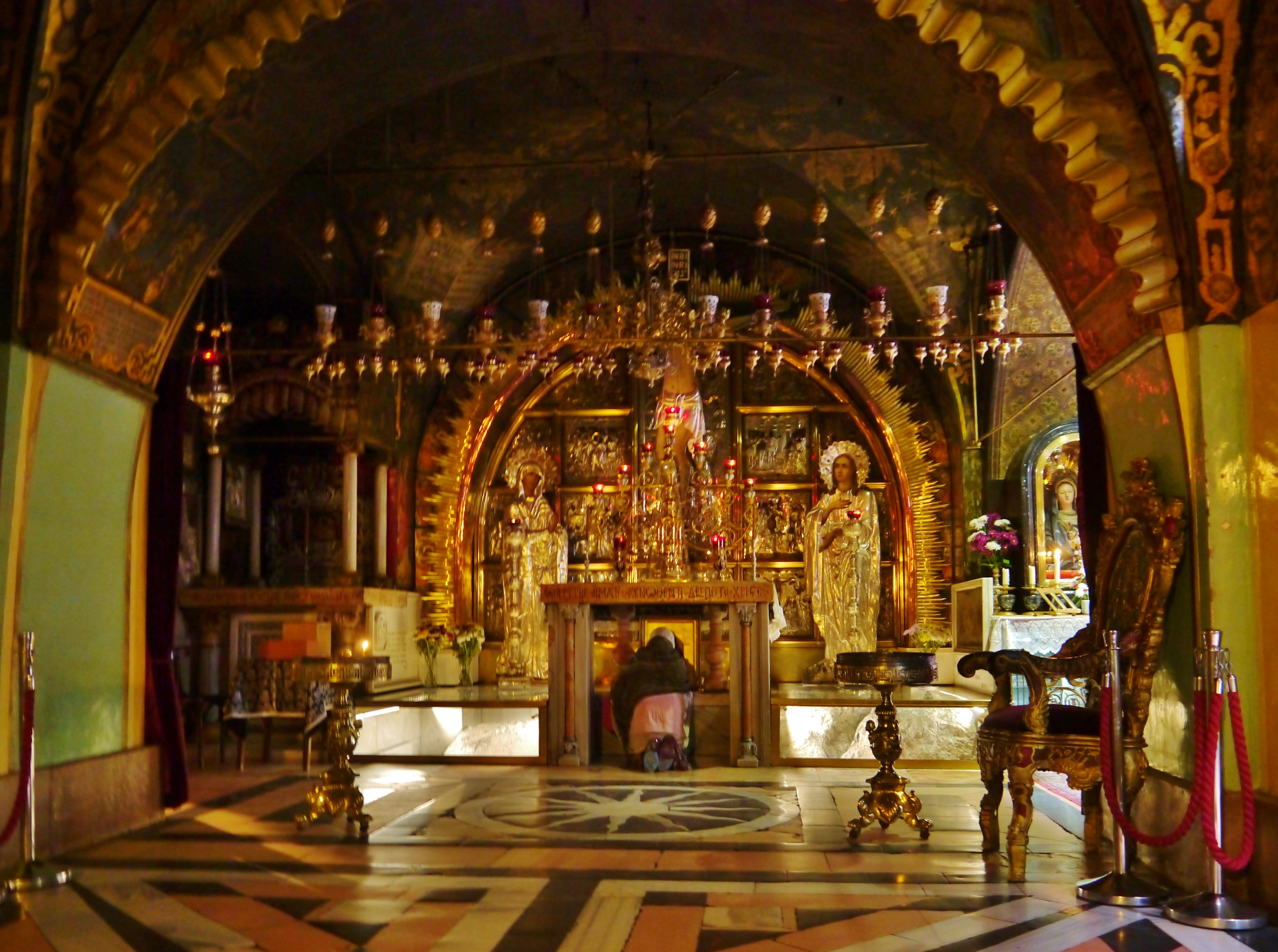 Greek Orthodox Altar of the Cruxifiation/Golghotha inside the Church of the Holy Sepulchre, Jerusalem, Israel